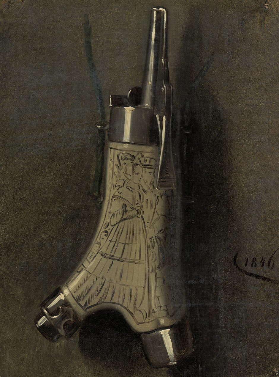 Eugen Hess: Gunpowder flask. Oil on canvas, 31 x 23 cm. Dated 1846.